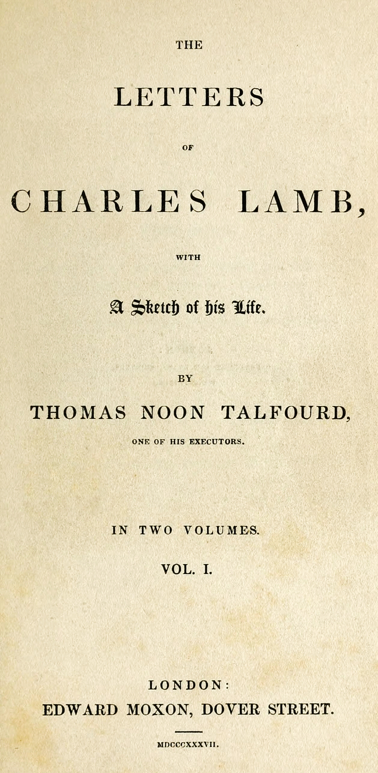 Letters of Charles Lamb 1st ed title pg